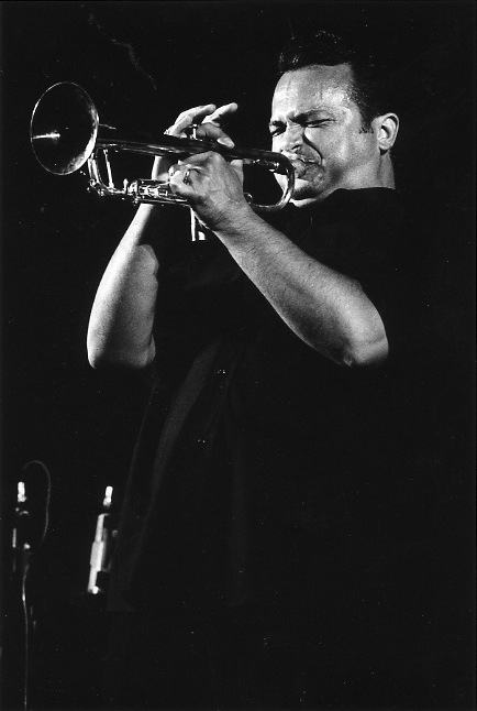 Andrea Tofanelli, Italian trumpet player